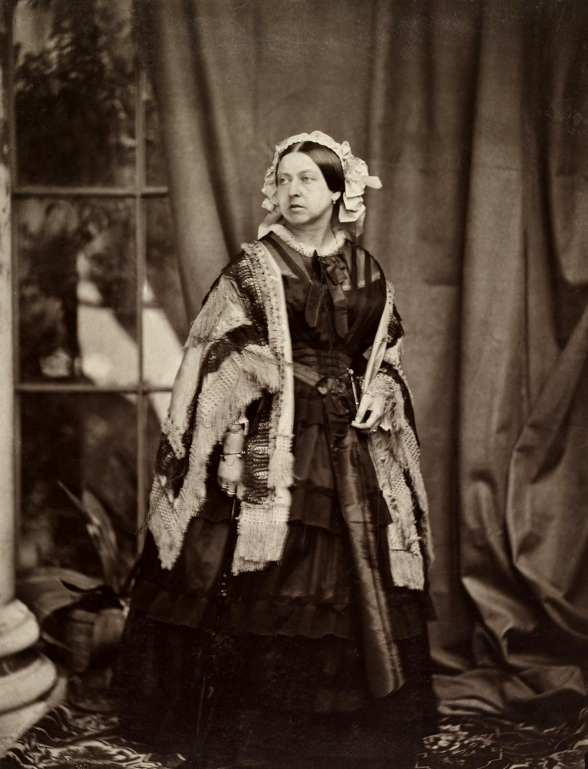 Queen Victoria 15 May 1860 J.J.E. Mayall Printed in carbon c.1889-91 by Hughes & Mullins Commissioned by Queen Victoria dimensions: Height: 40.2 cm (15.8 in); Width: 30.8 cm (12.1 in) dimensions QS:P2048,40.2U174728;P2049,30.8U174728